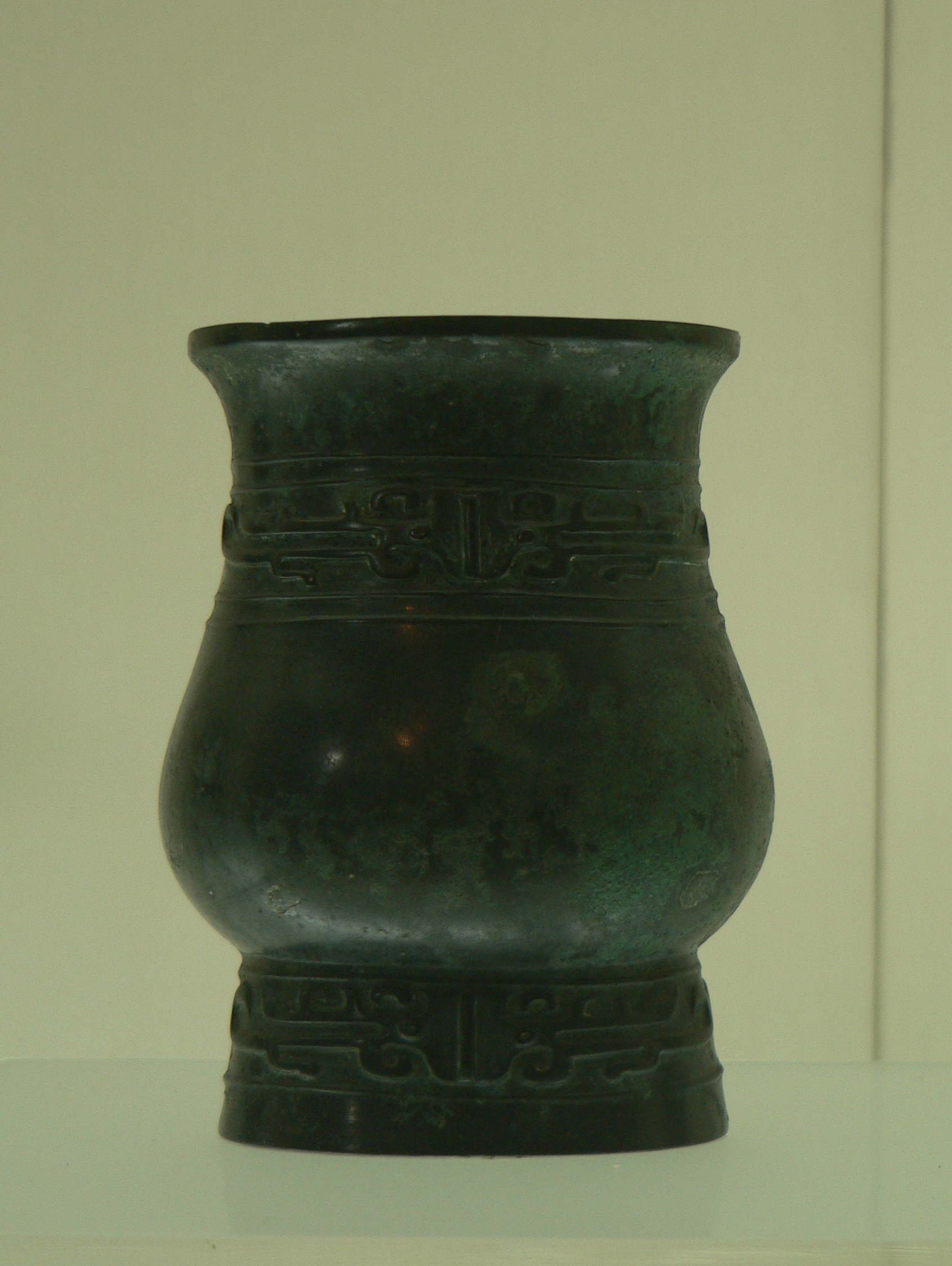 Bronze Zhi with Ogre-mask Motif Western Zhou Dynasty，Excavated from Pengjiagou at Beiyao，Luoyang，In 1964